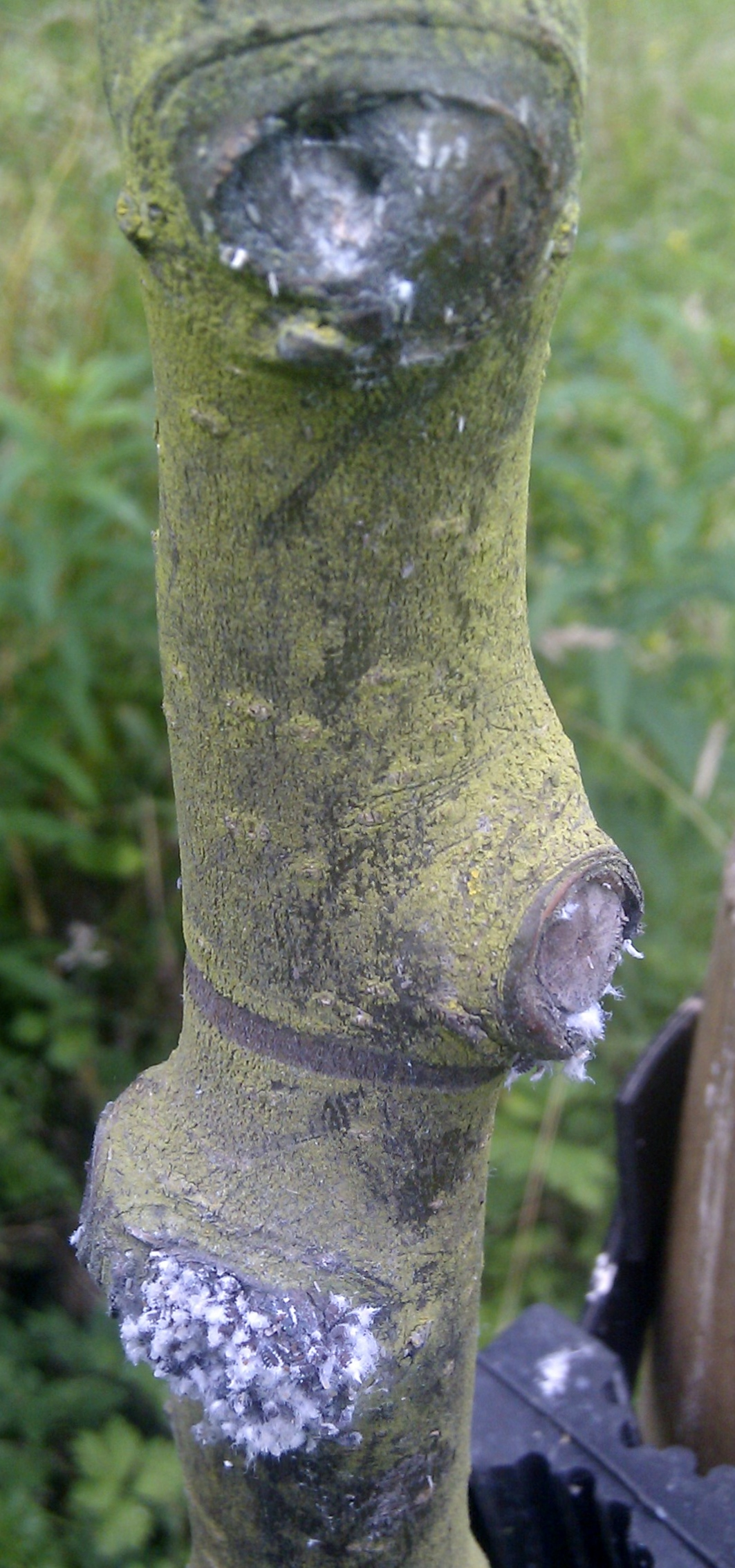 The Woolly Aphid (Eriosoma lanigerum) on Crab Apple. Spier's Old School Grounds, Beith, North Ayrshire, Scotland.